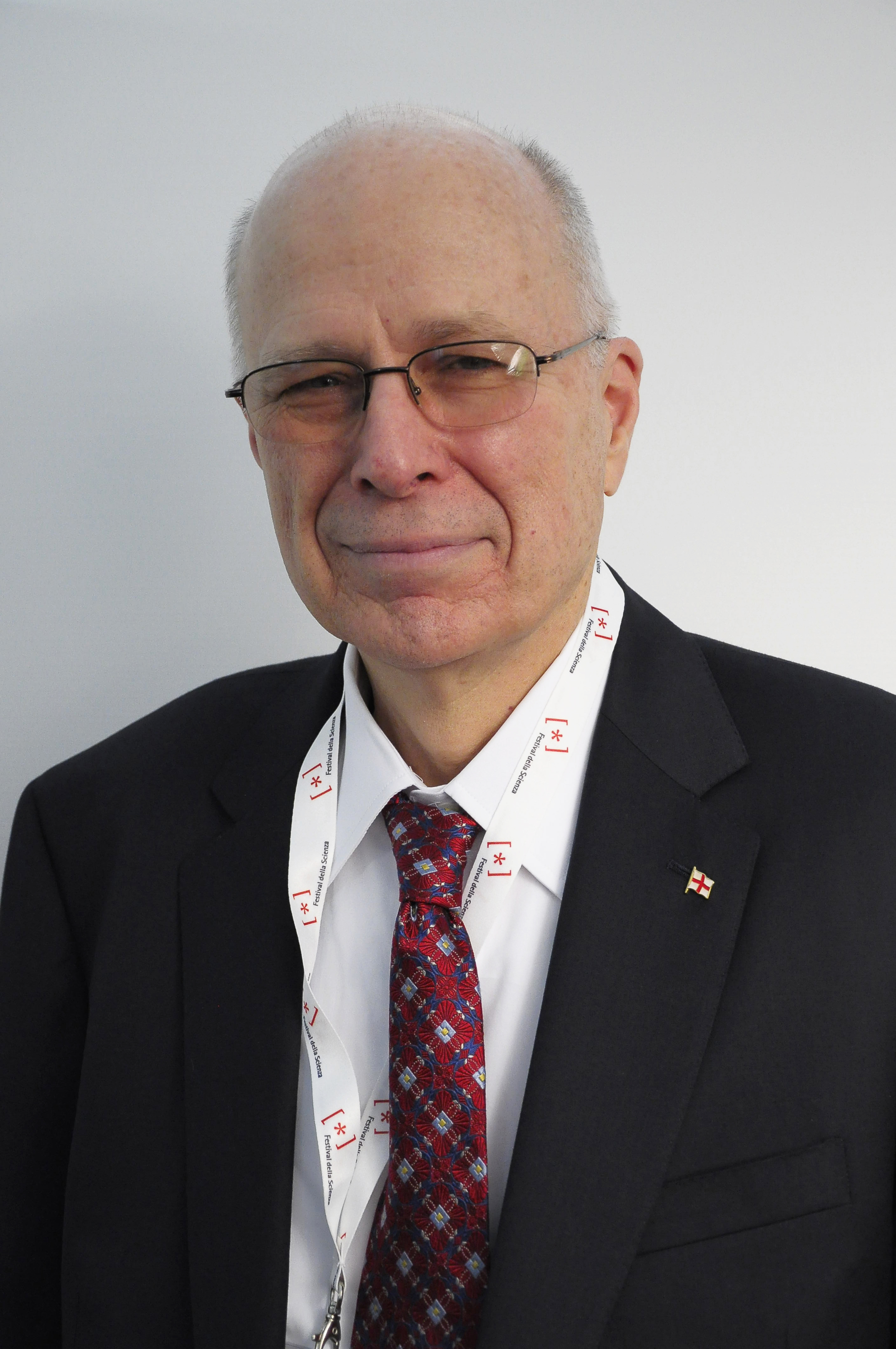 American physicist Elmer William Colglazier, fourth Science and Technology Adviser to the U.S. Secretary of State. This picture was shot in Genoa, Italy, at the 2011 Festival della Scienza.